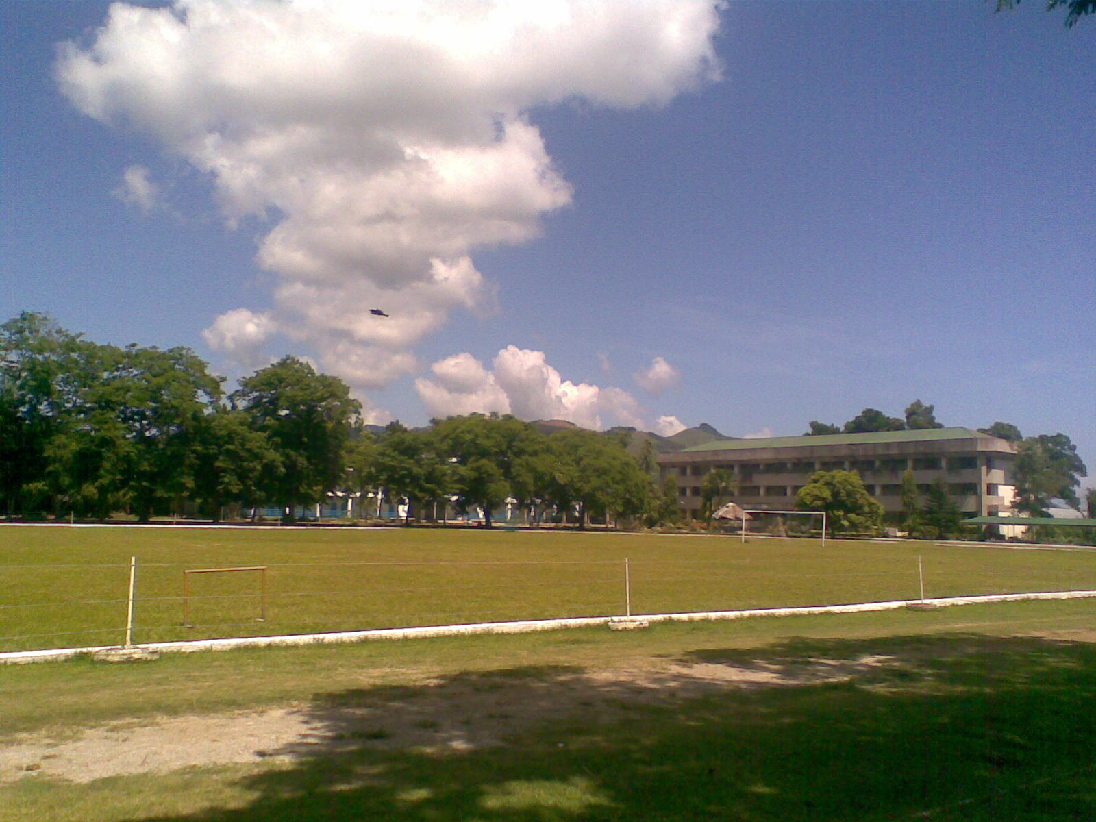 NIT Oval, Naval, Biliran